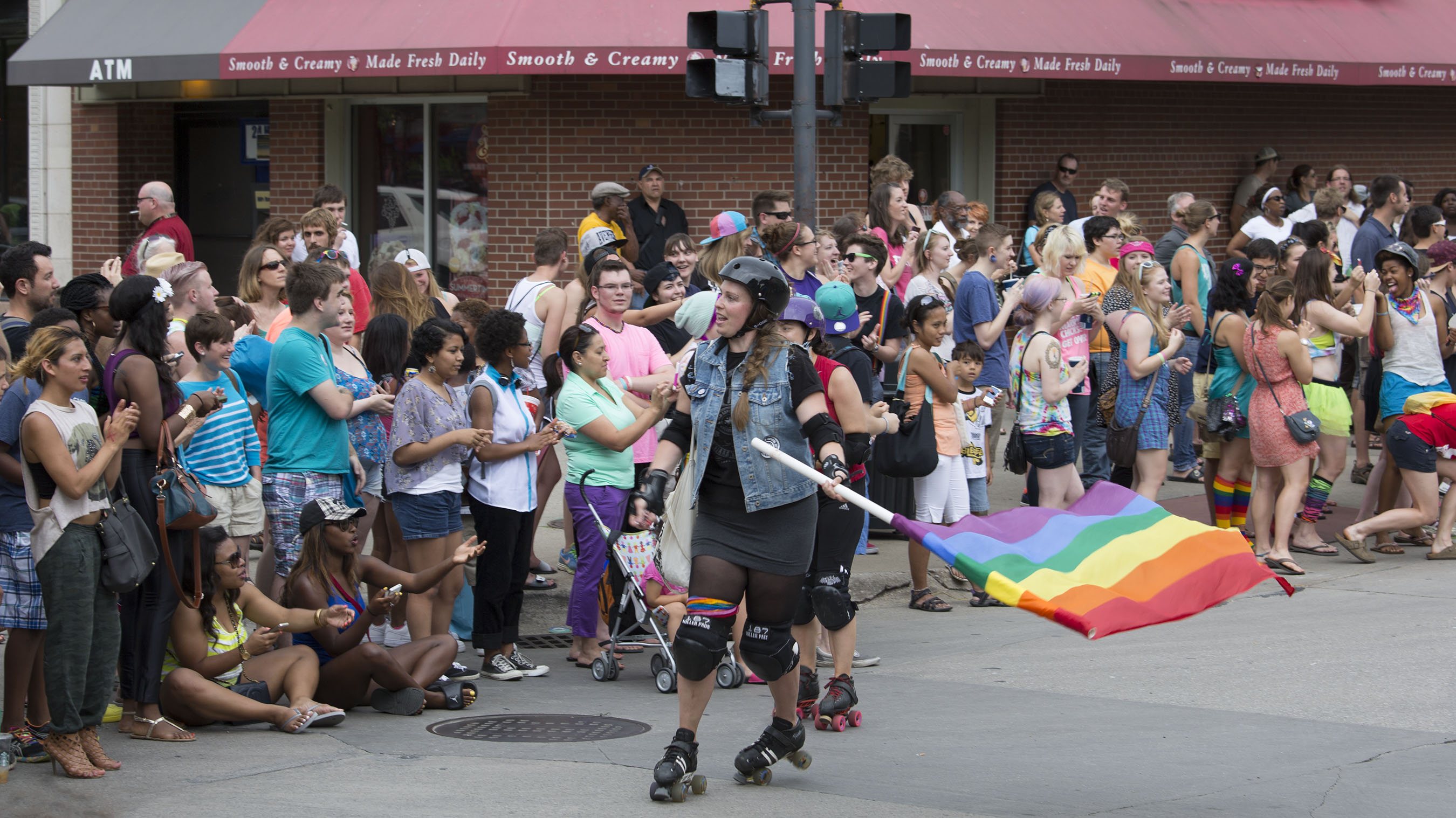 Parade and People of Pride